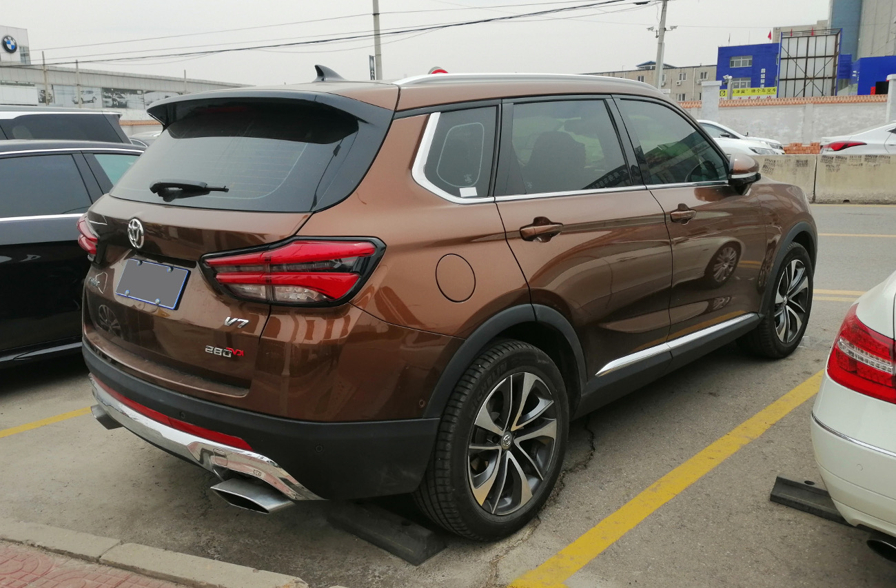 Brilliance V7 photographed in Beijing, China.